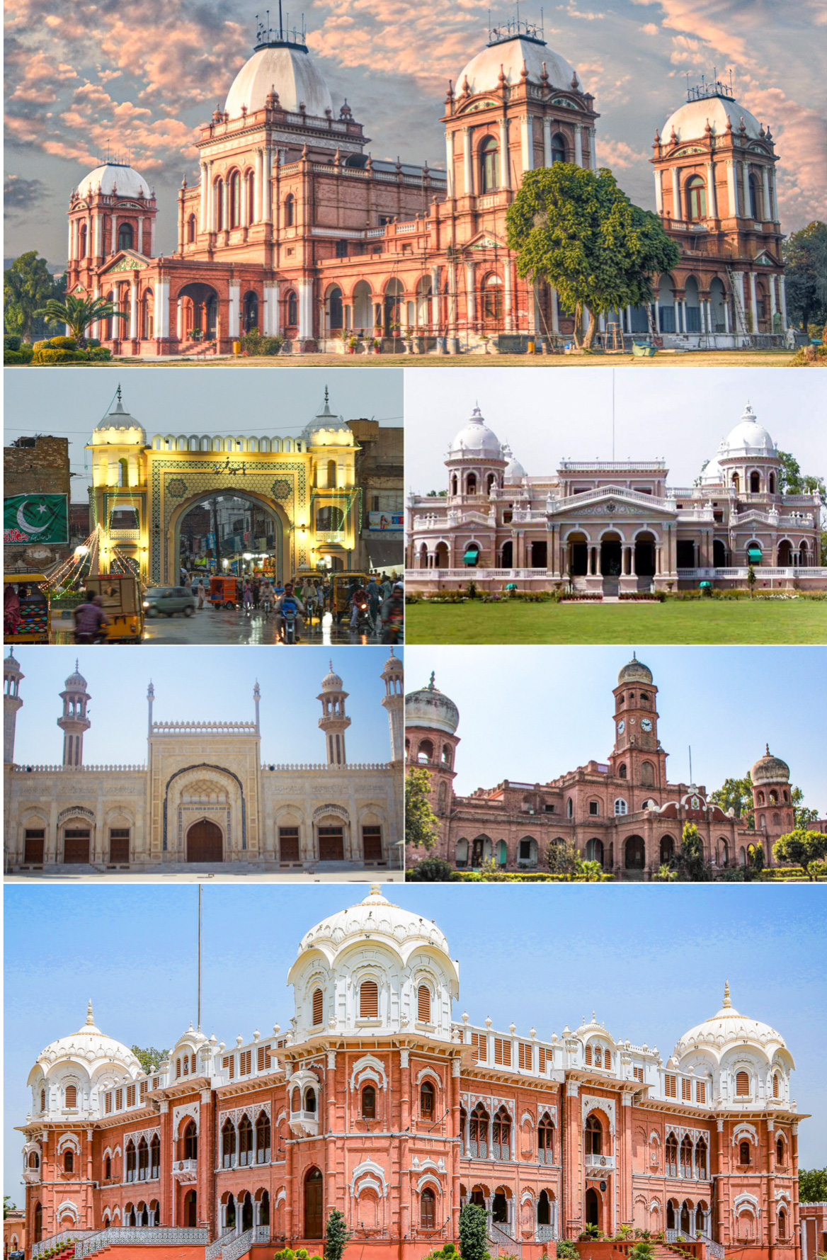 A montage of famous sights in Bahawalpur